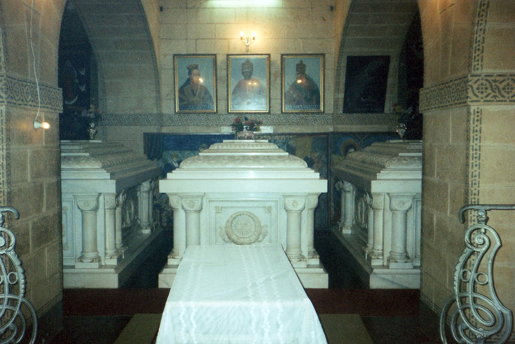 Addis Abeba : The mausoleum where the crypts of Emperor Menelik II his wife, and his daughter are found.